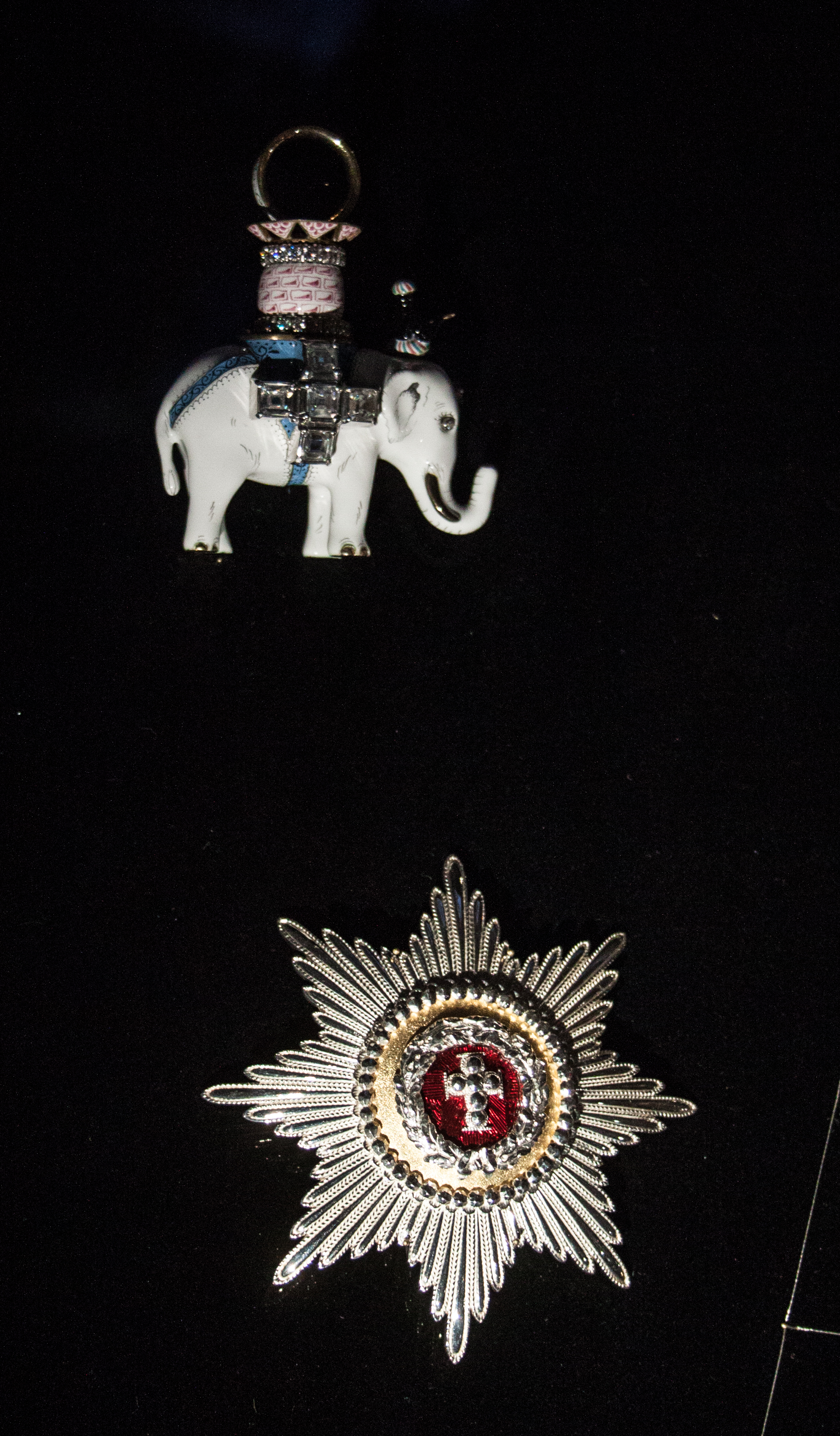 Koldinghus, exhibition Magtens smykker (Jewellery of the power), 2018